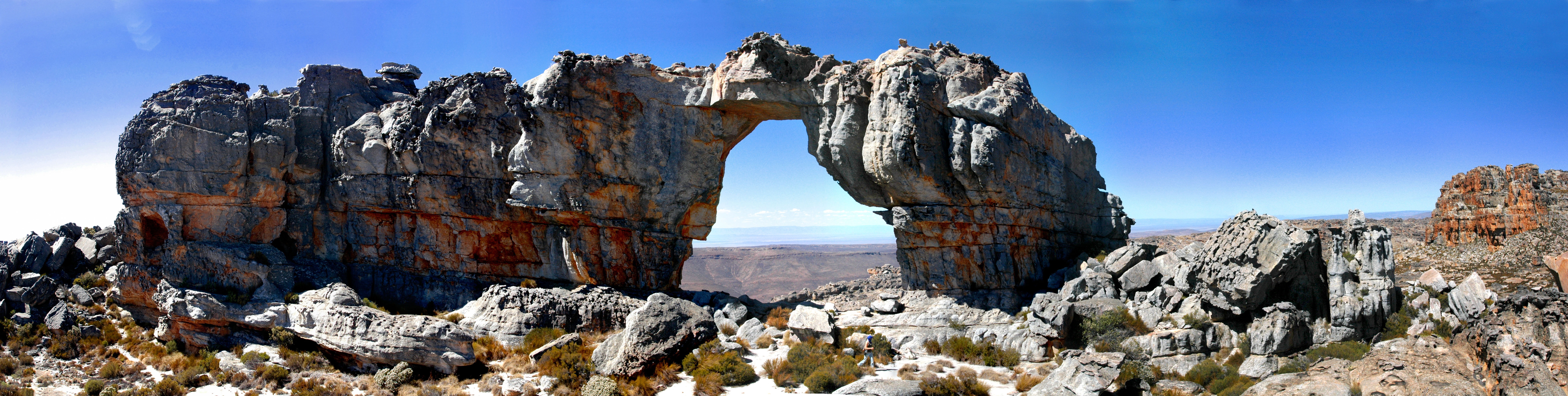 Wolfberg Arch in the Cederbergs near the Wolfsberg crags